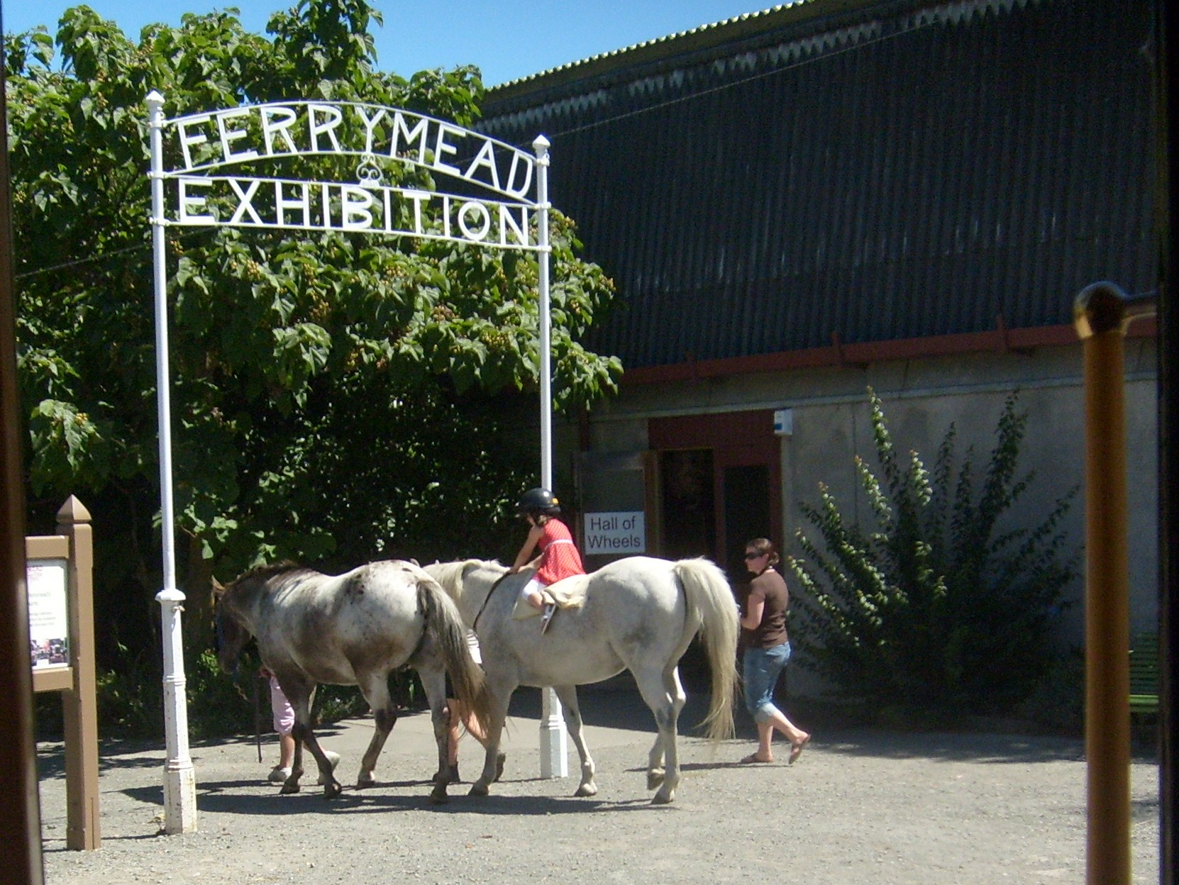 Shot of the tram looking at the Heritage Centre sign.